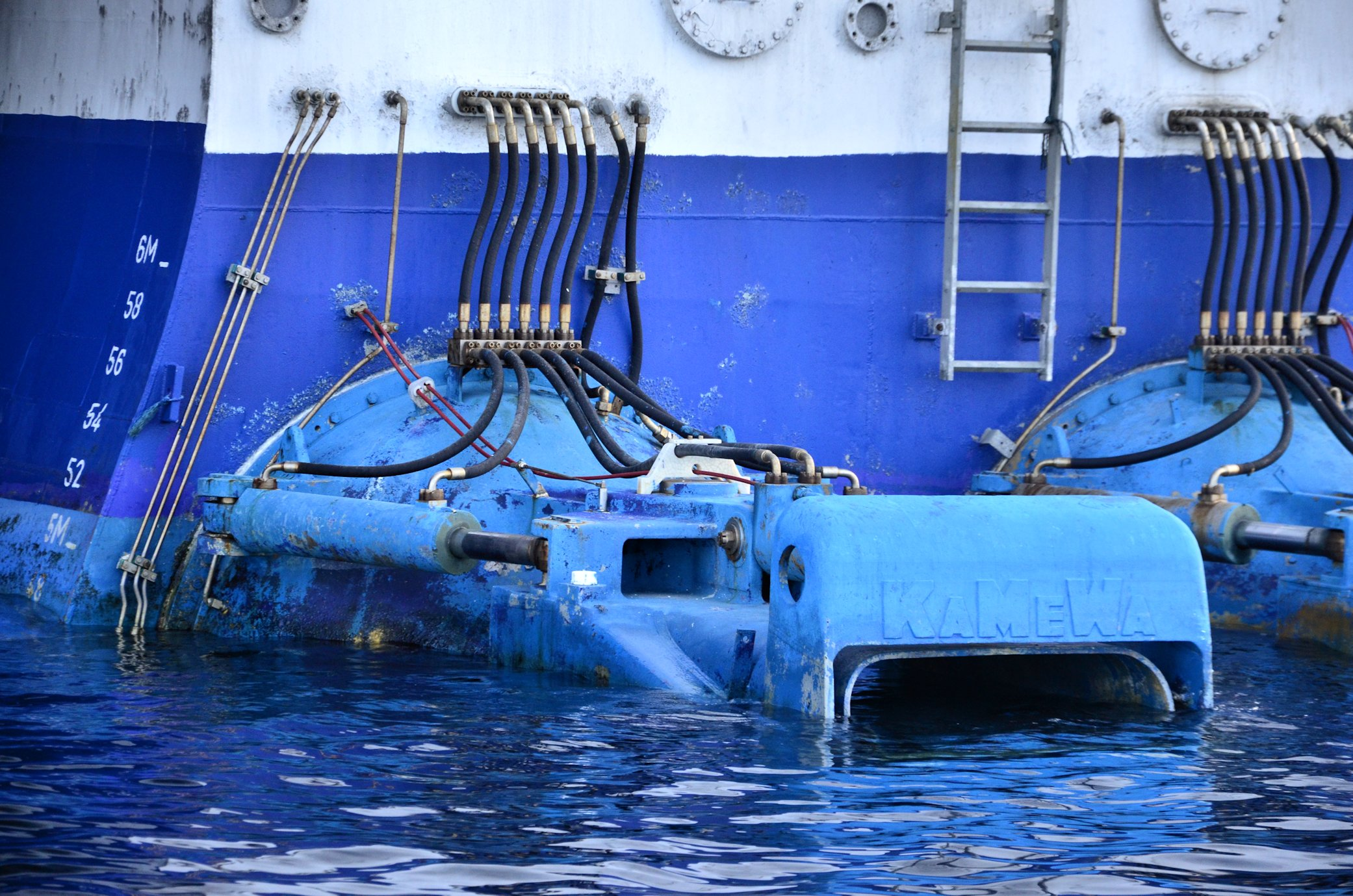 The starboard KaMeWa waterjets on the HSS Discovery